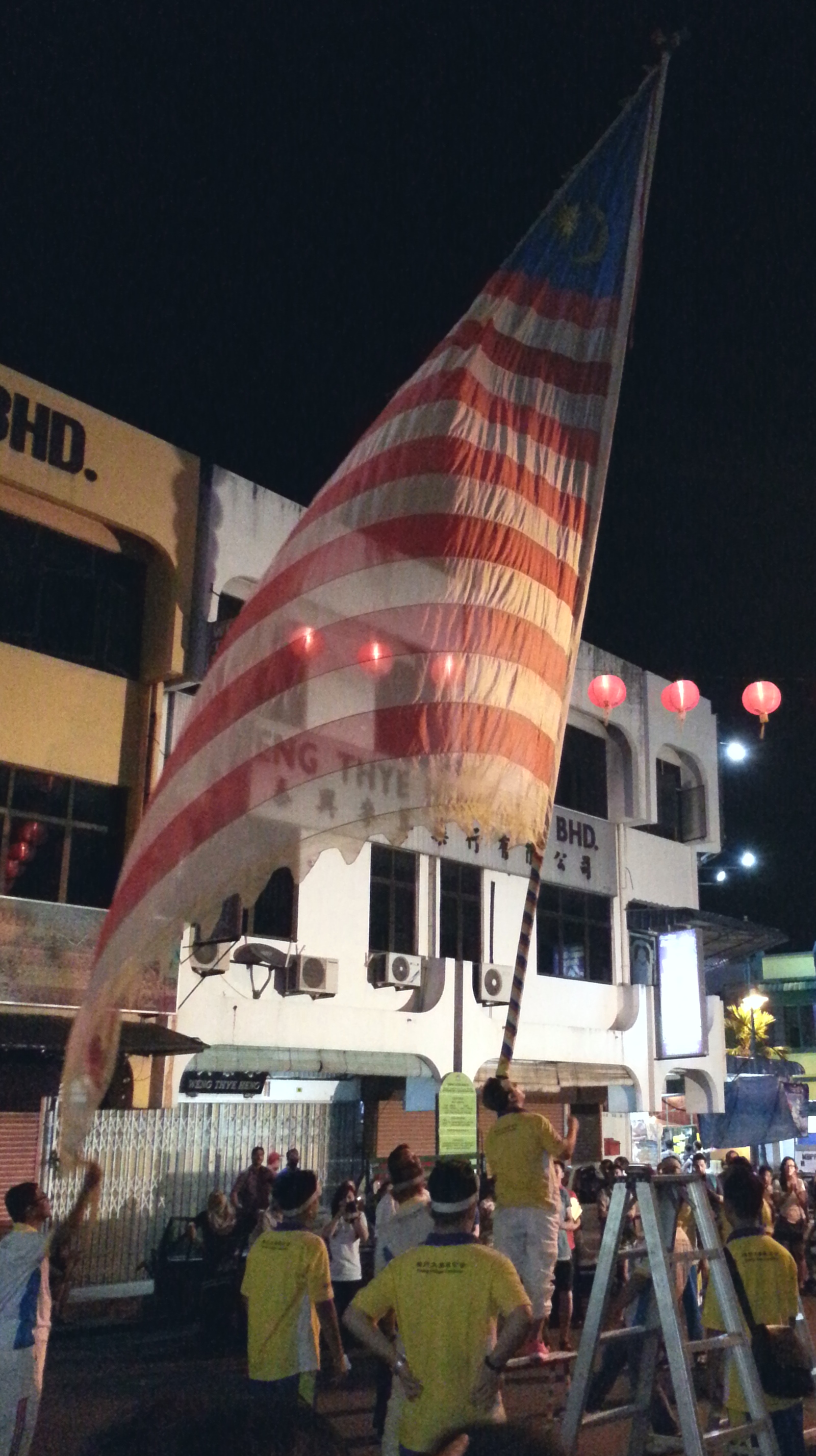 Chingay performers in the streets of George Town in Penang